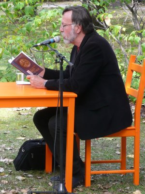 German author and theologist Albrecht Gralle reads at the Erlanger Poetenfest 2009